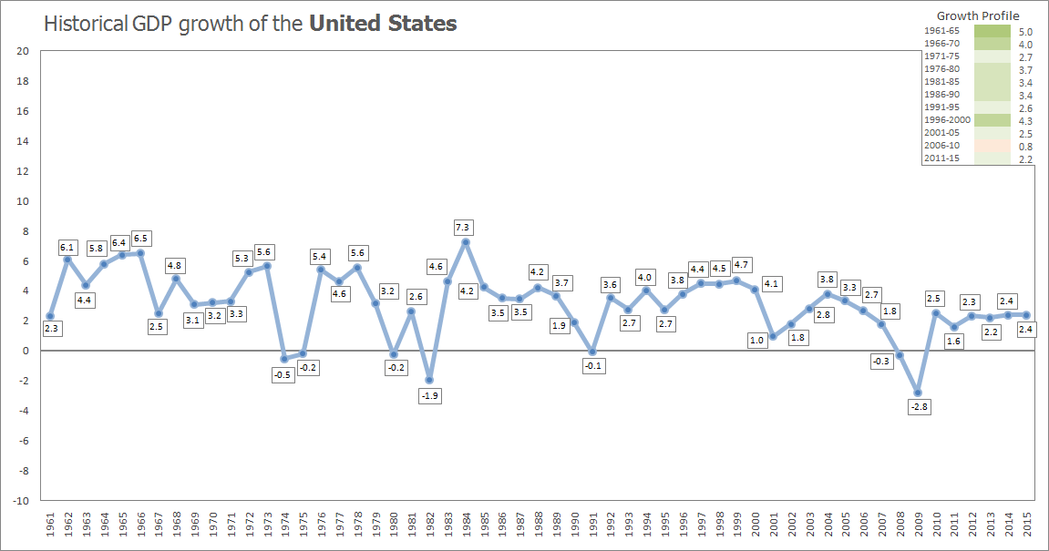 The chart shows the economic growth of the US economy from 1961-2015. Also shown are the five-year averages in the same time frame.